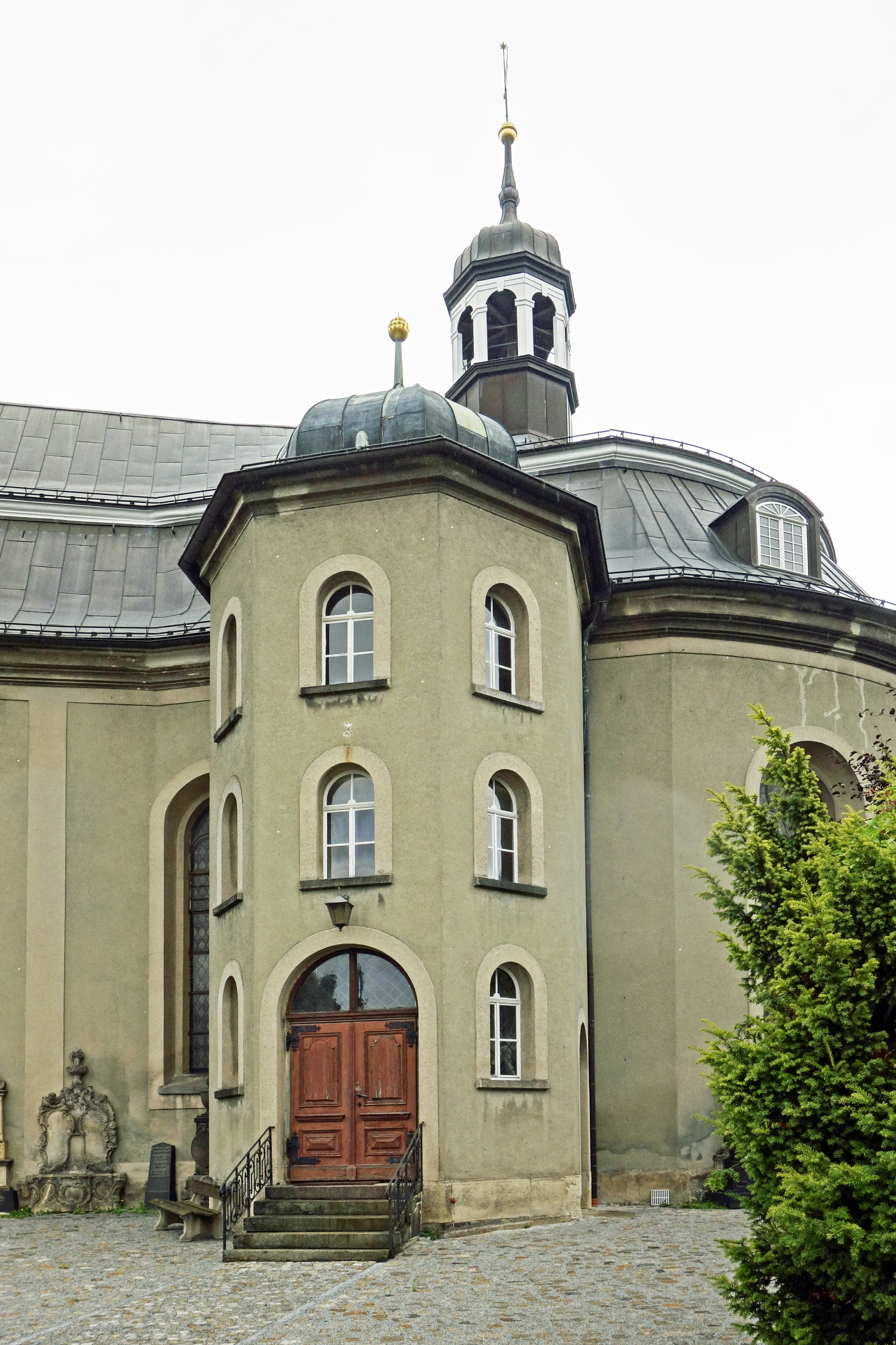 Unknown language: Kirche Ebersbach August 2017 (6)